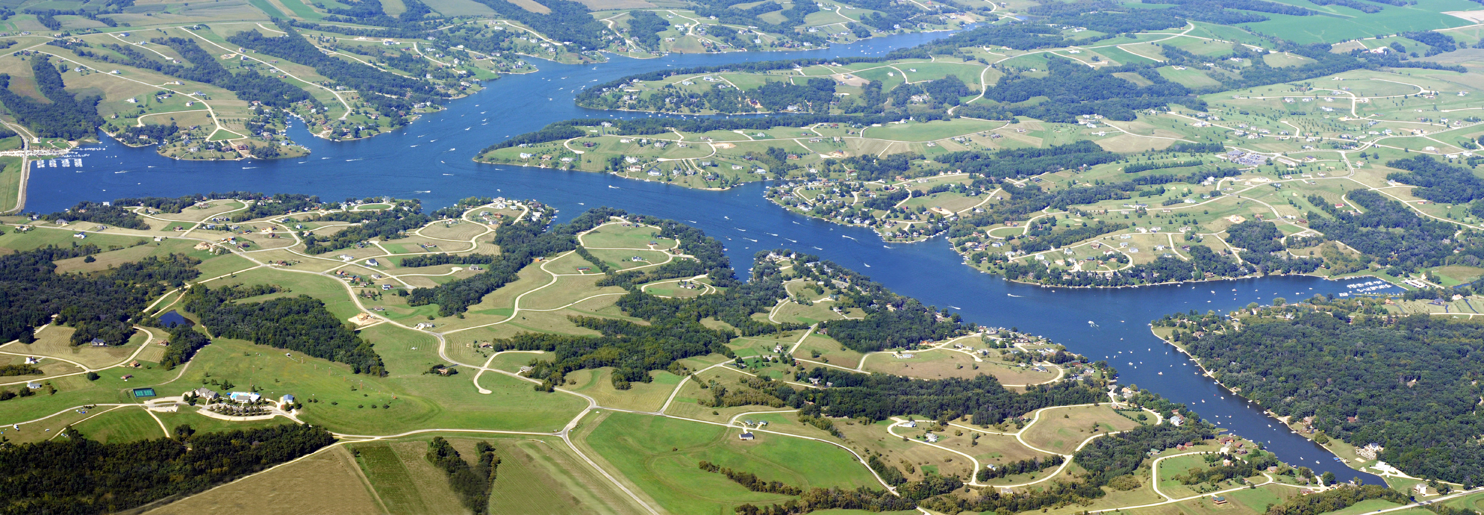 An aerial view of Lake Carroll over a holiday weekend.